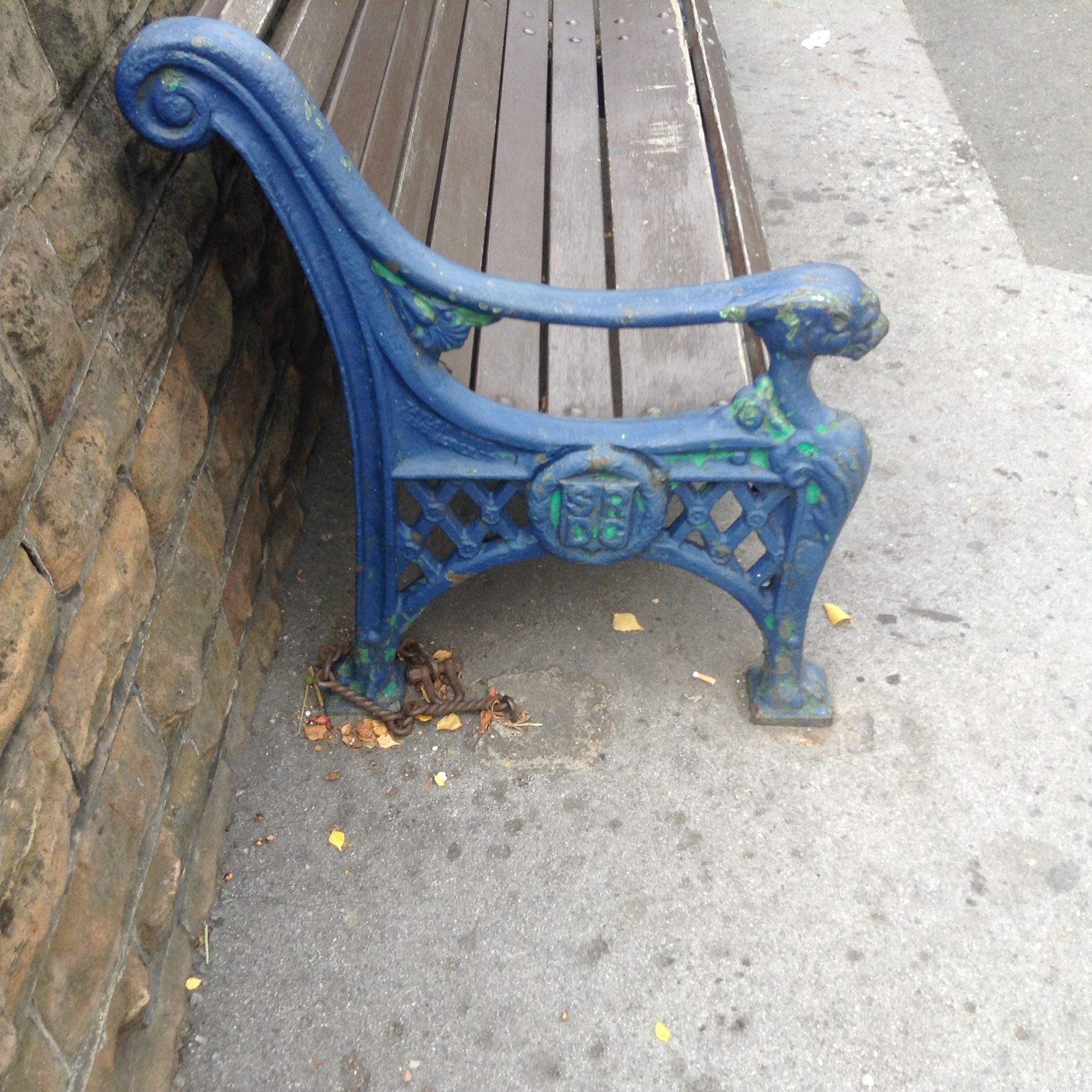 Bench in Stapleford, Nottinghamshire showing Stapleford Rural District ensign.